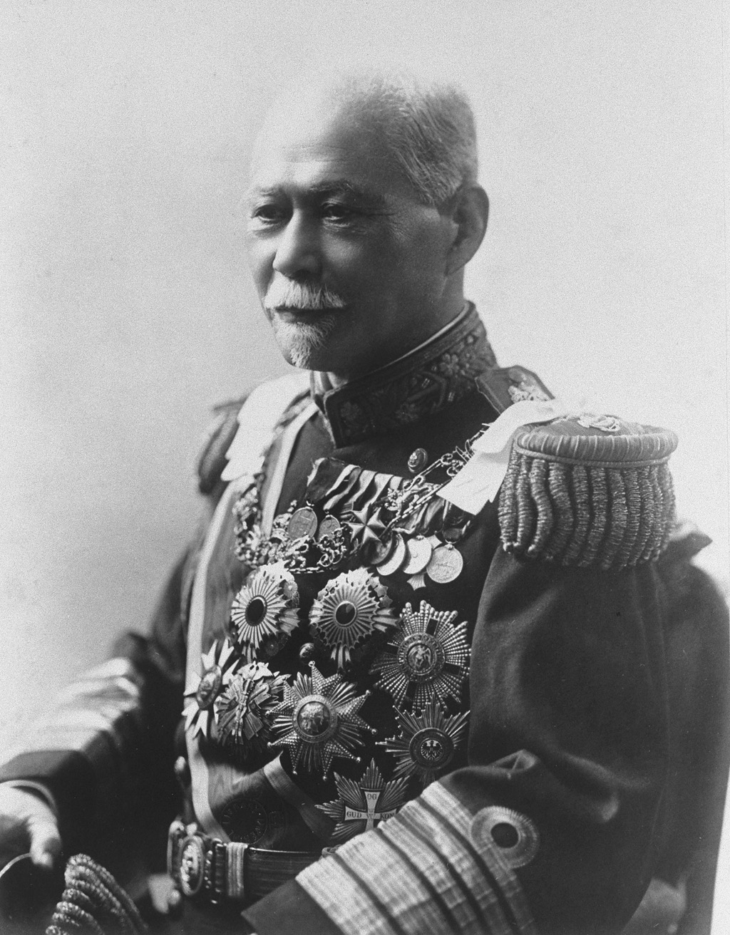 Portrait of Yamamoto Gonbee (山本権兵衛, 1852 – 1933)